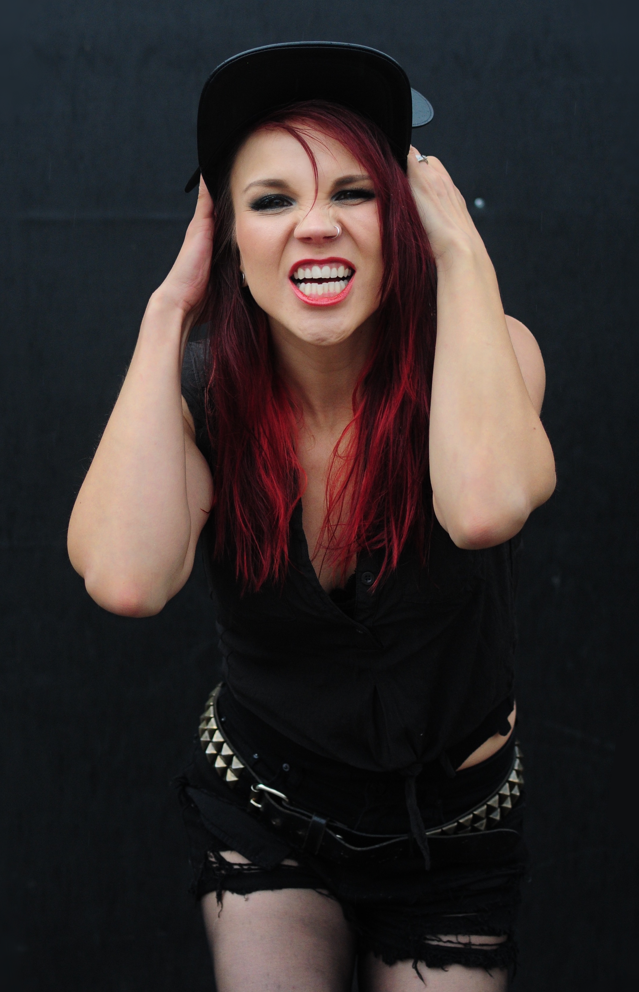 picture of a person named Suvimarja Halmetoja